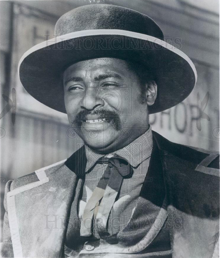 D'Urville Martin in Boss Nigger - publicity still